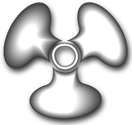 US Navy Machinist's Mate (MM). Three-bladed propeller; one blade pointing down.